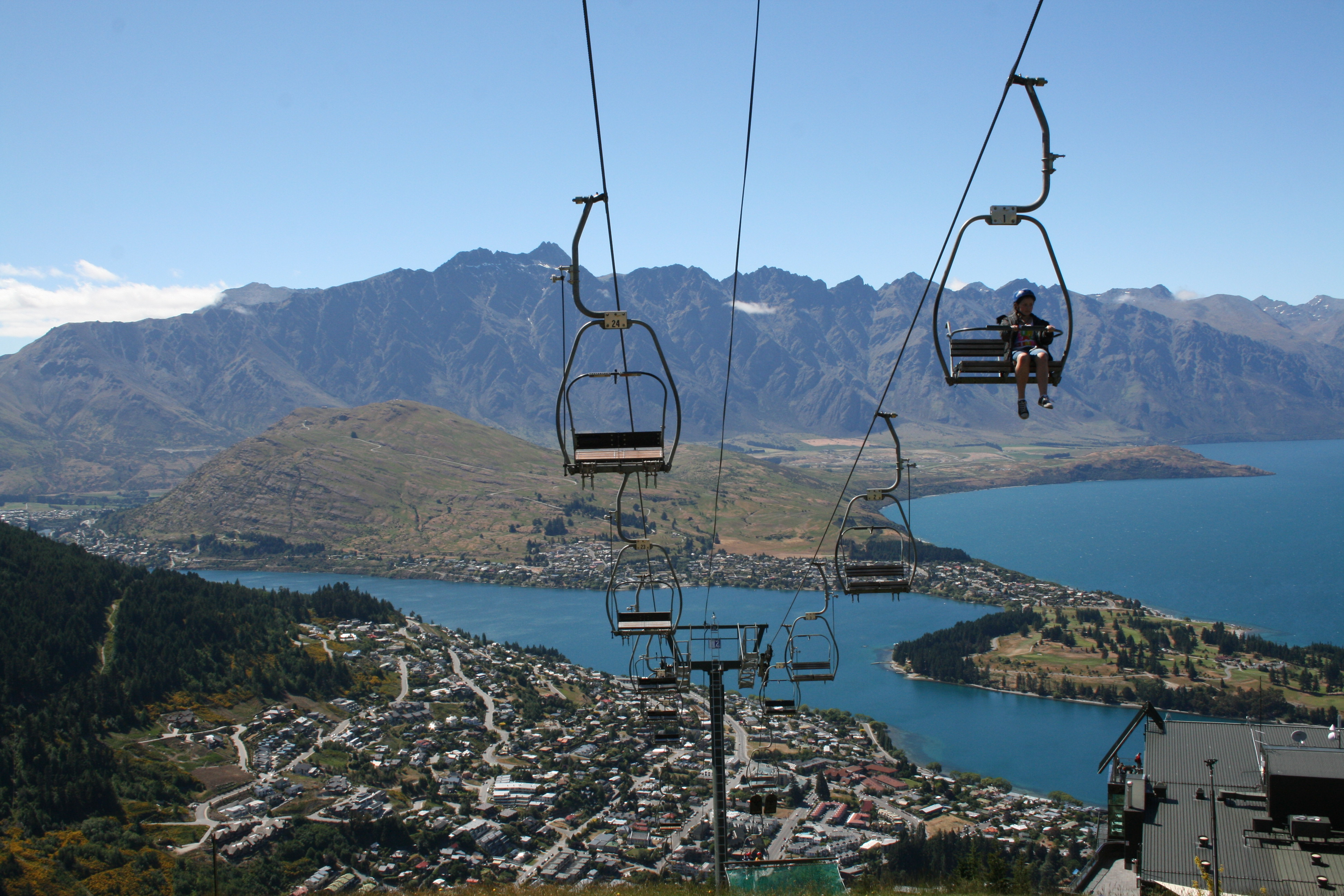 Queenstown, New Zealand